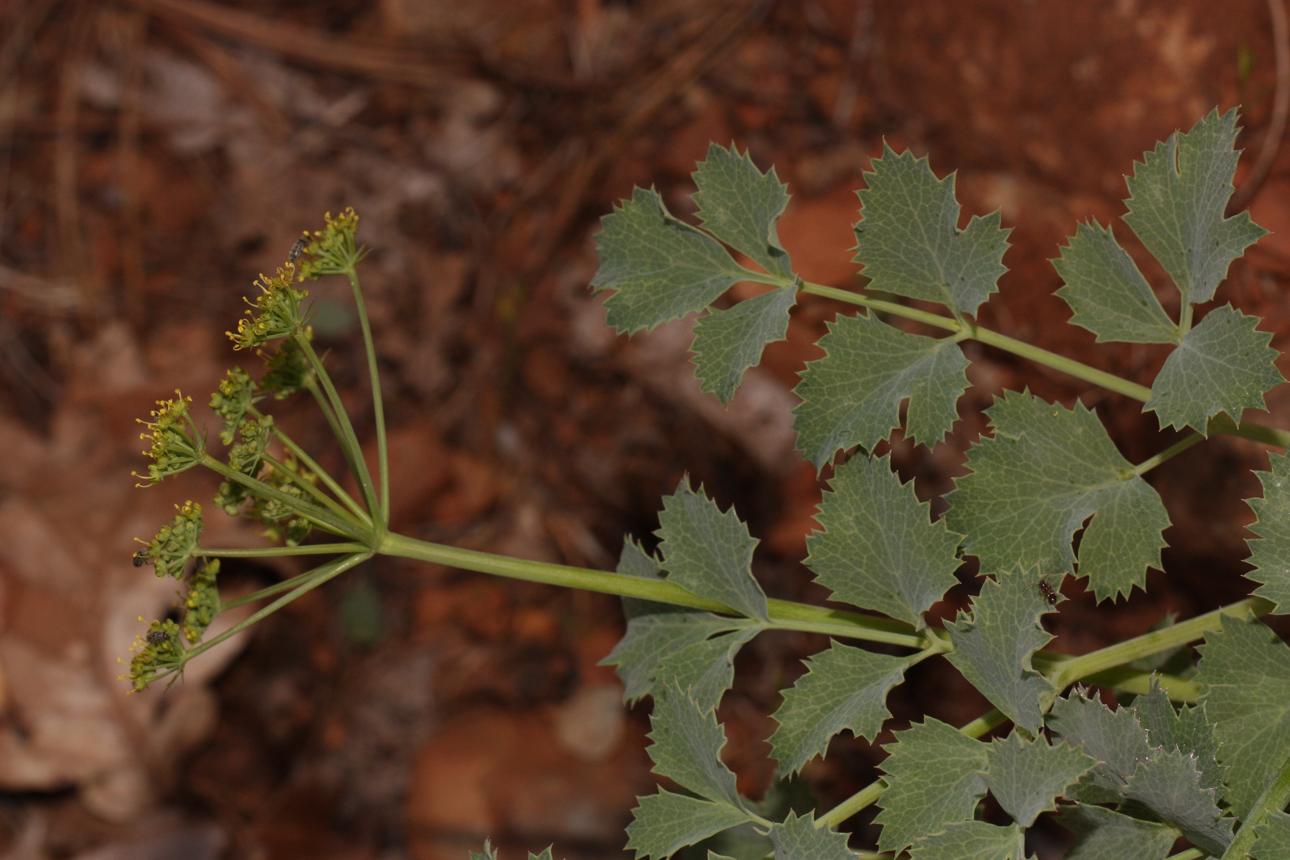 Howell's Lomatium Viewpoint location: Little Falls Trail, T. J. Howell Botanical Drive Viewpoint elevation: 375 meter (1230 ft) Location source: Garmin GPSmap 60CSx Location Datum: WGS84